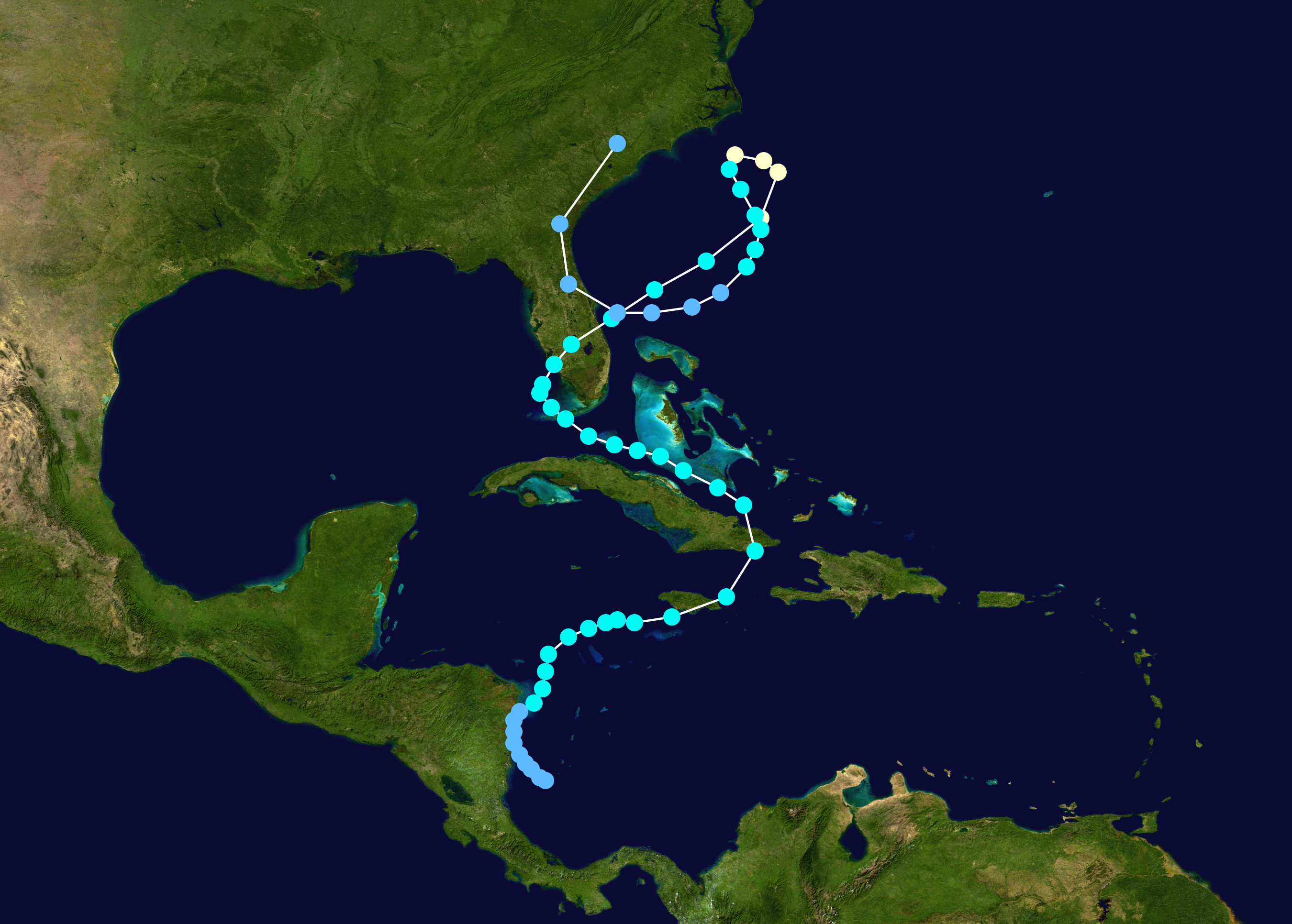 Track map of Hurricane Gordon of the 1994 Atlantic hurricane season. The points show the location of the storm at 6-hour intervals. The colour represents the storm's maximum sustained wind speeds as classified in the Saffir–Simpson scale (see below), and the shape of the data points represent the nature of the storm, according to the legend below. Saffir–Simpson scale Tropical depression≤38 mph≤62 km/h Category 3111–129 mph178–208 km/h Tropical storm39–73 mph63–118 km/h Category 4130–156 mph209–251 km/h Category 174–95 mph119–153 km/h Category 5≥157 mph≥252 km/h Category 296–110 mph154–177 km/h Unknown Storm type Tropical cyclone Subtropical cyclone Extratropical cyclone / Remnant low / Tropical disturbance / Monsoon depression